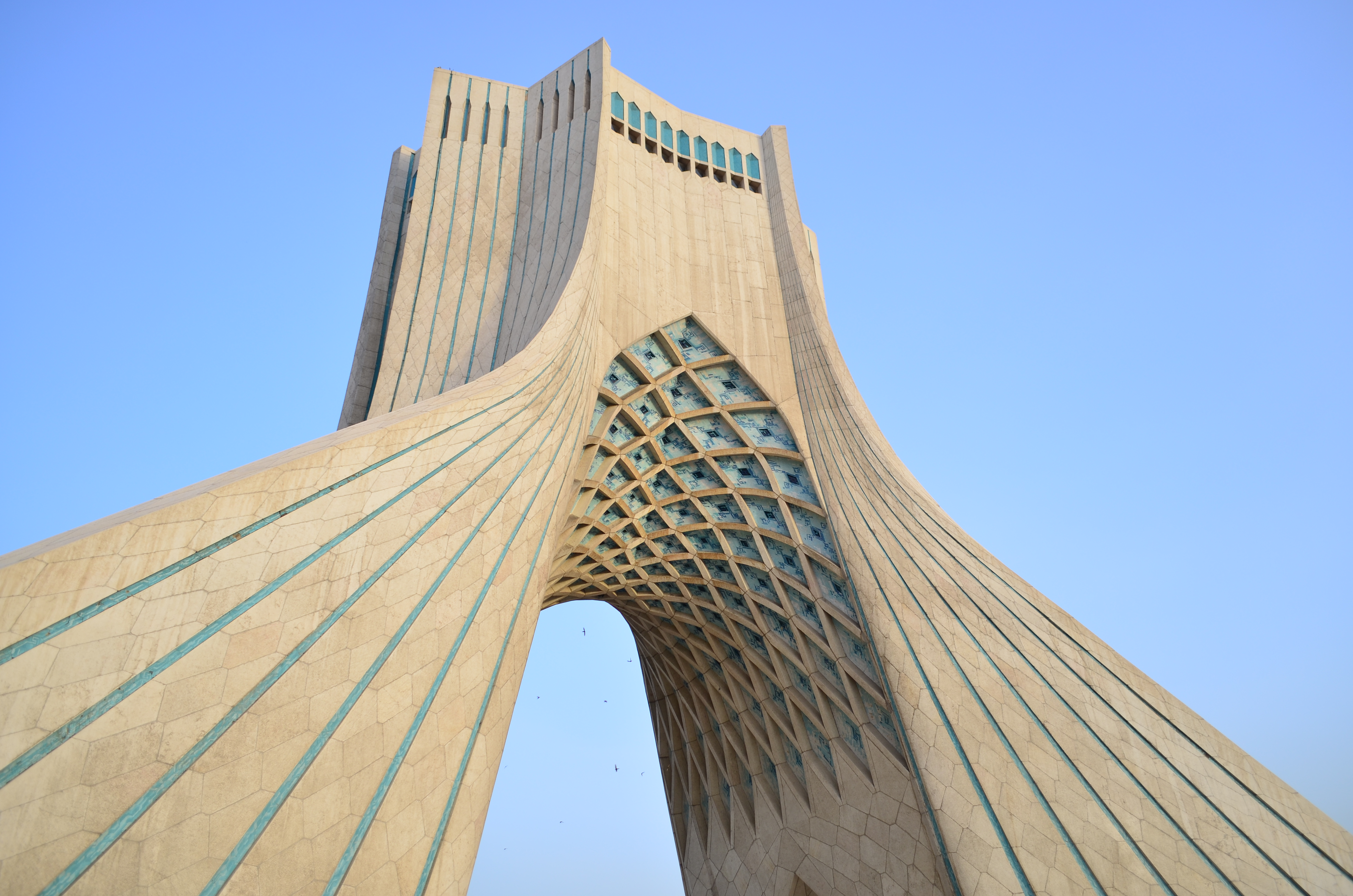 Azadi Tower